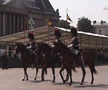 Belgian Royal Escort (horse), arrow